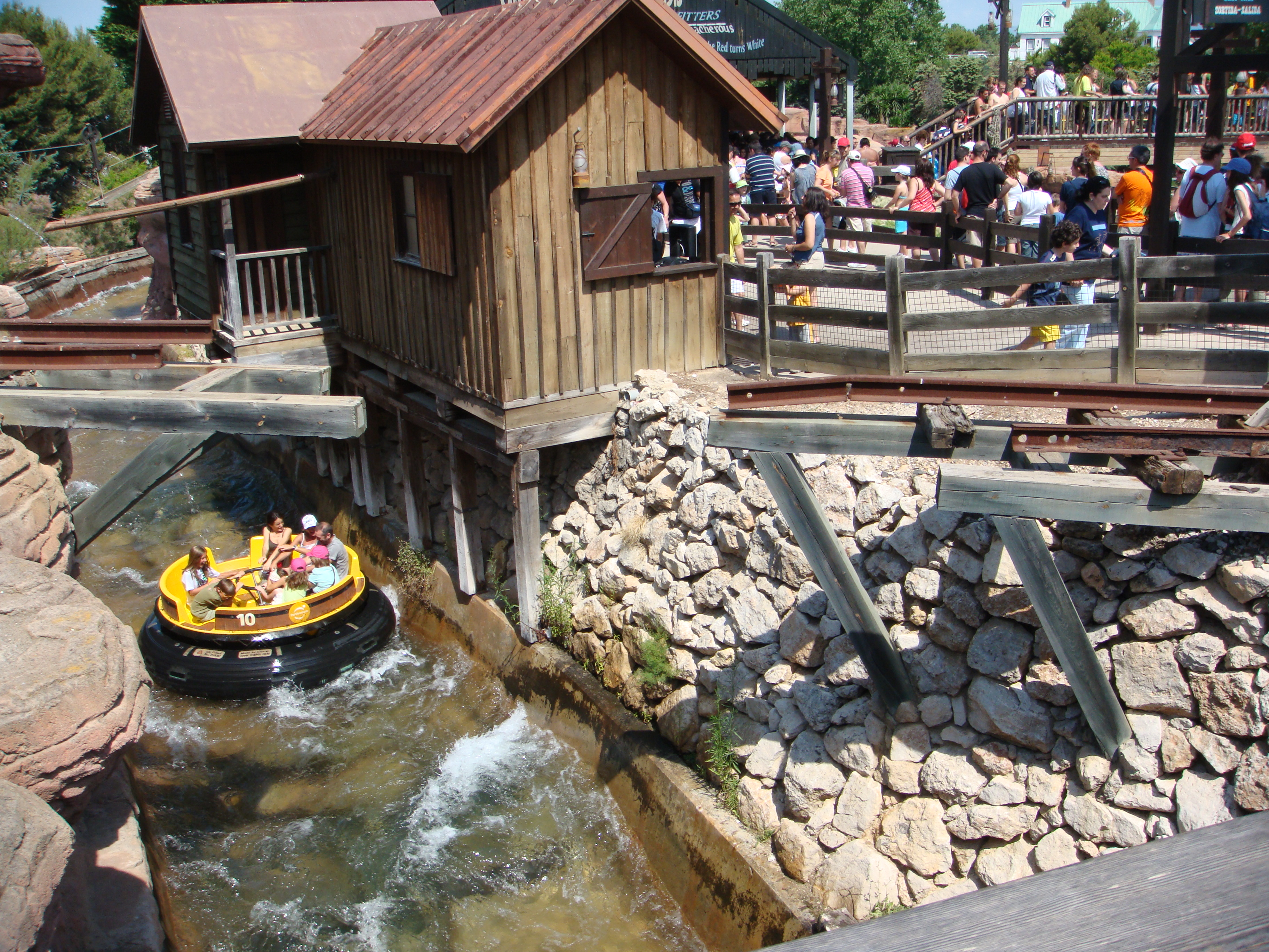 Grand Canyon Rapids in Port Aventura